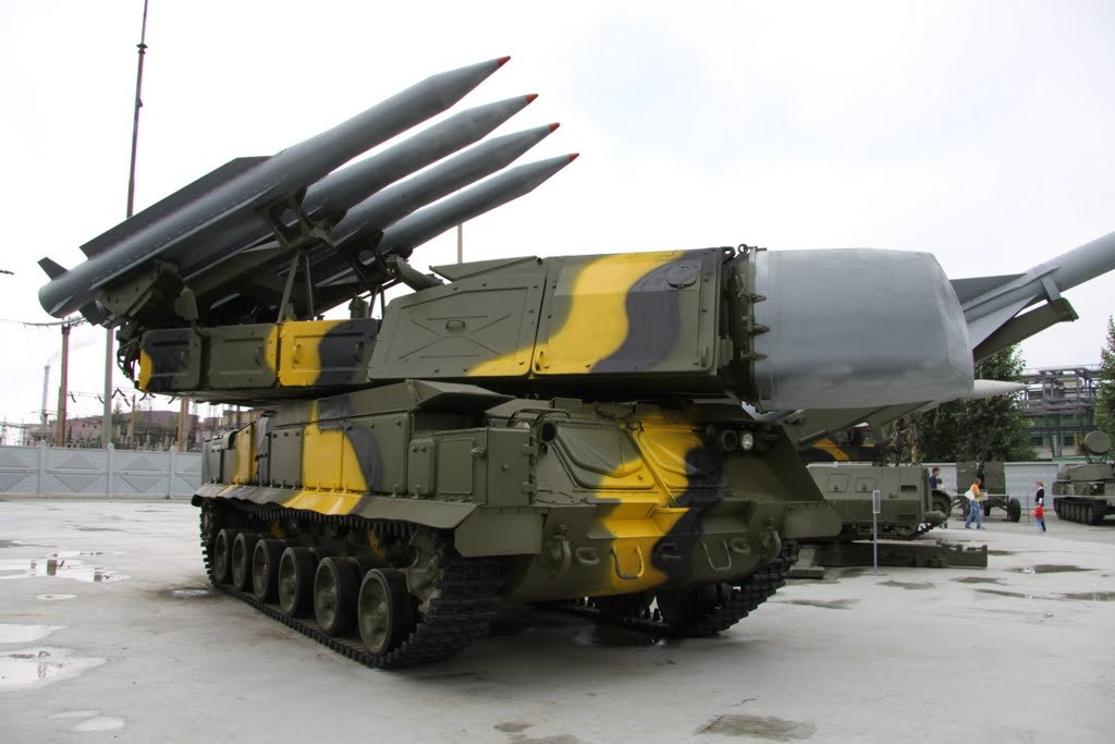 Verkhnyaya Pyshma Tank Museum 2011